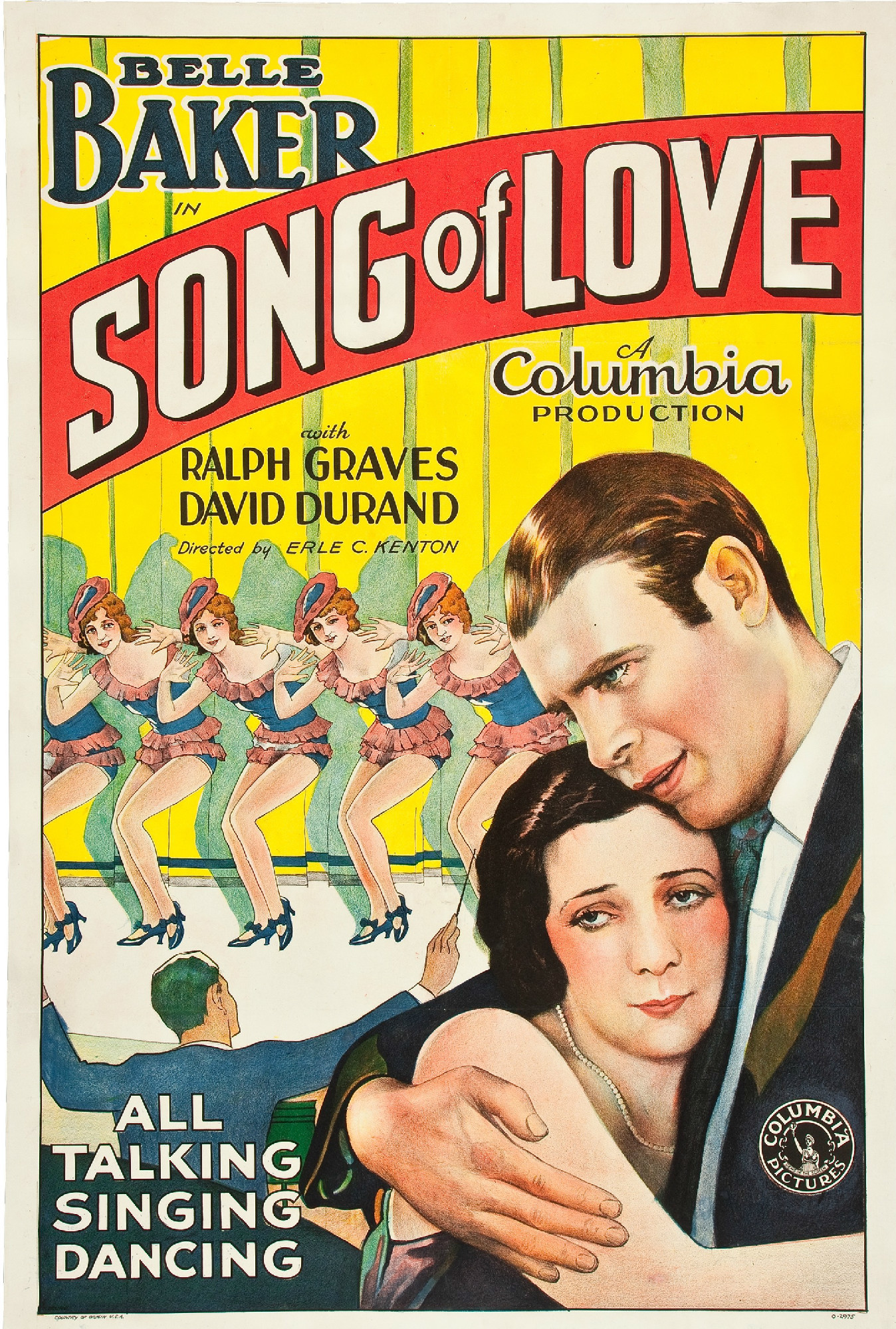 Window poster for the American musical film Song of Love (1929).